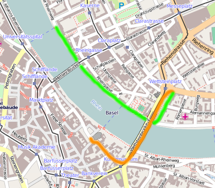 This map of Basel in der Schweiz was created from OpenStreetMap project data, collected by the community. This map may be incomplete, and may contain errors. Don't rely solely on it for navigation.